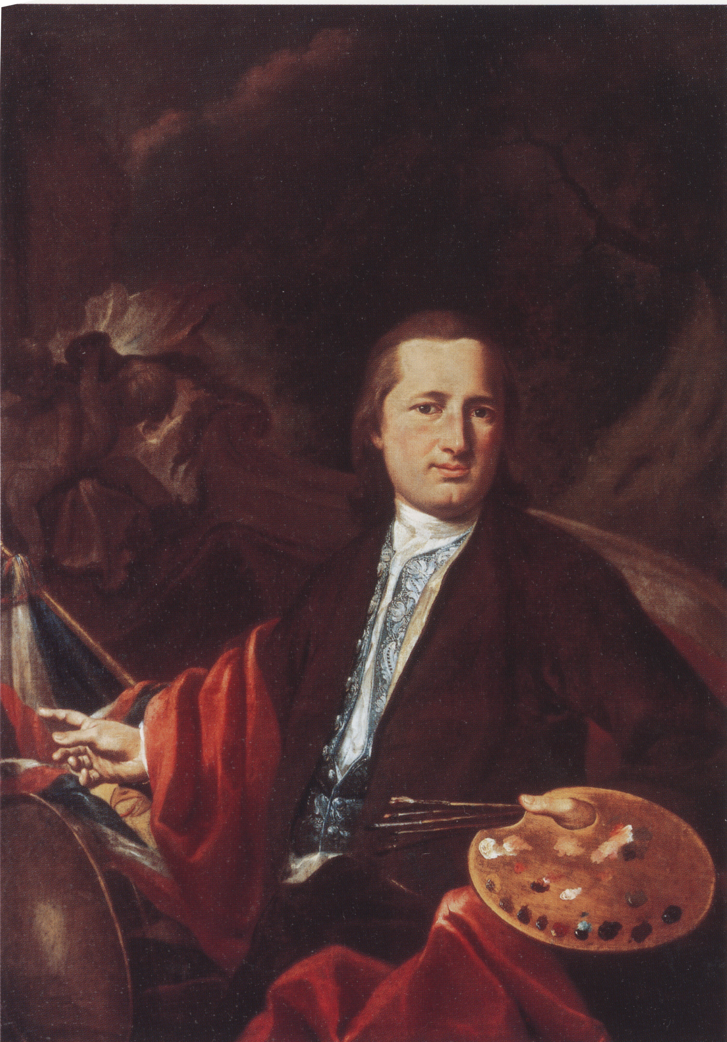 Self-portrait of Matthäus Günther